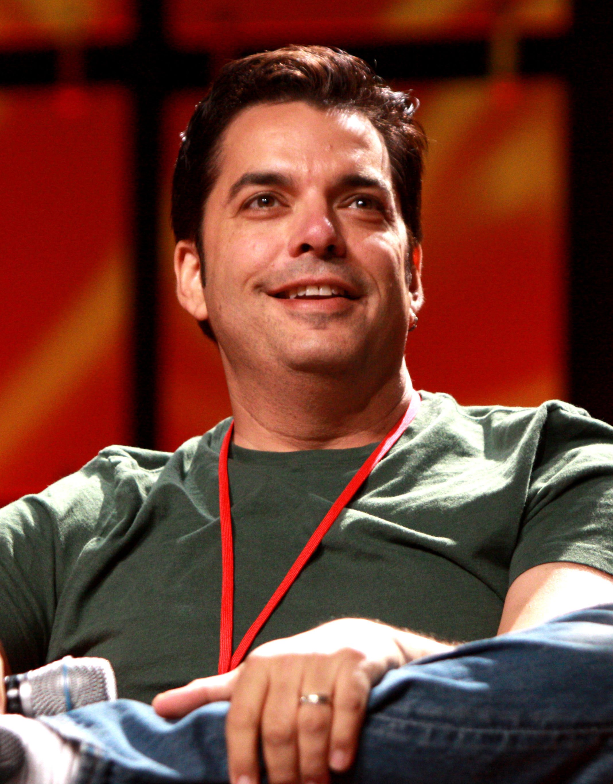 Lex Lang at the 2013 Phoenix Comicon in Phoenix, Arizona.